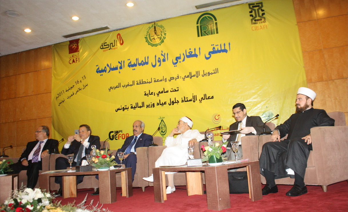 [Mohamed El Hedef] The Forum for Islamic Finance took place in Gammarth July 15th-16th. احتضنت قمرت منتدى المالية الإسلامية يومي 15-16 يوليو Le Forum de la finance islamique a eu lieu à Gammarth les 15 et 16 juillet